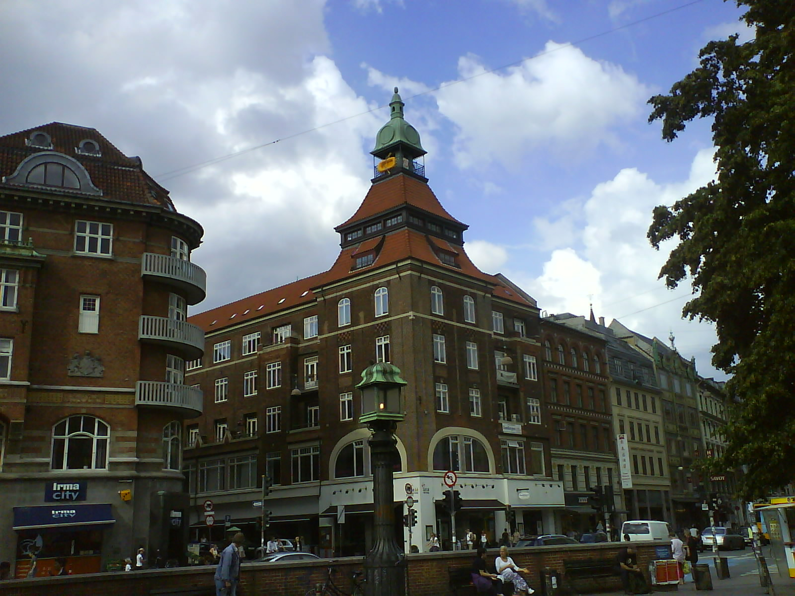 The corner building next to the passageway which runs through Det Ny Theatre (The New Theatre) seen from Vesterbro Torv in Copenhagen, Denmark